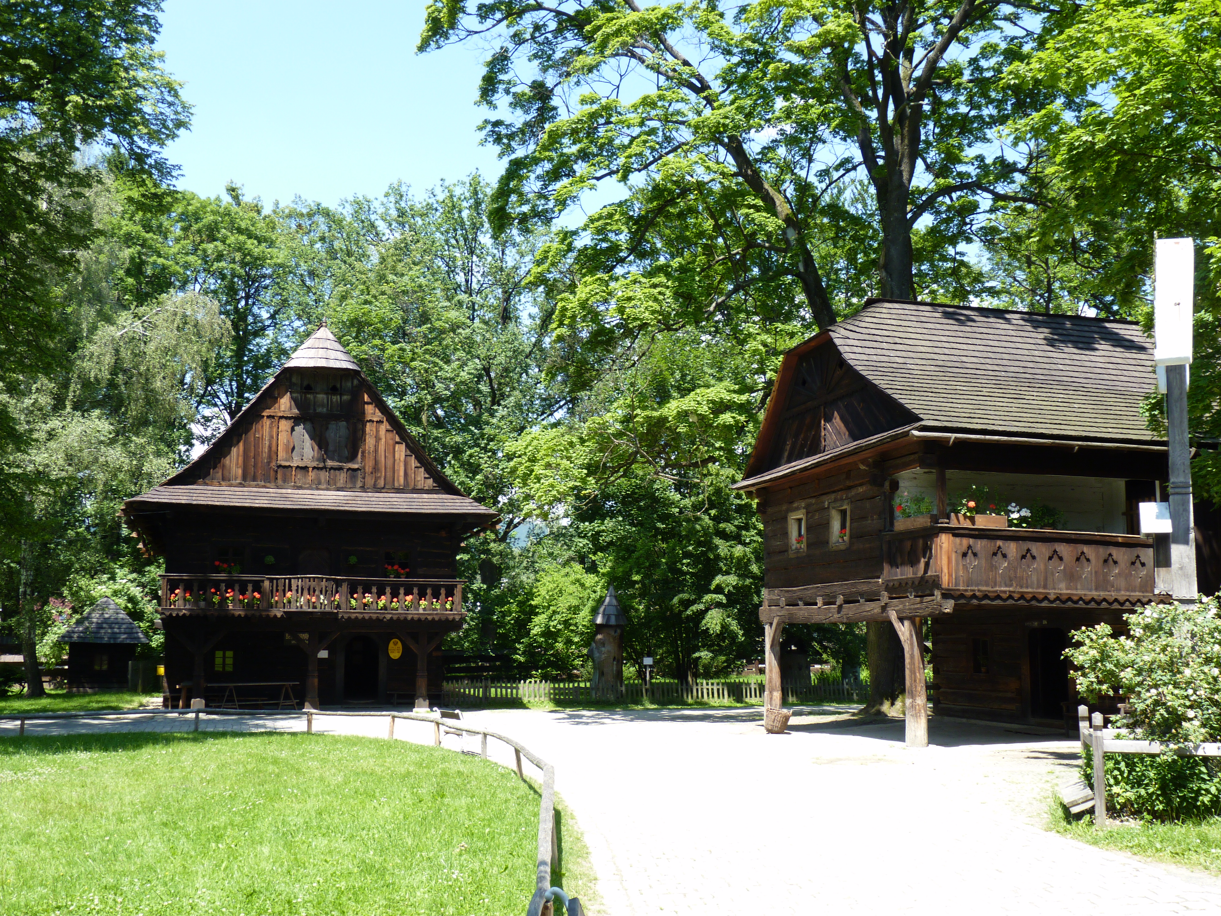 Wallachian Open Air Museum in Rožnov pod Radhoštěm, Zlín Region, Czech Republic